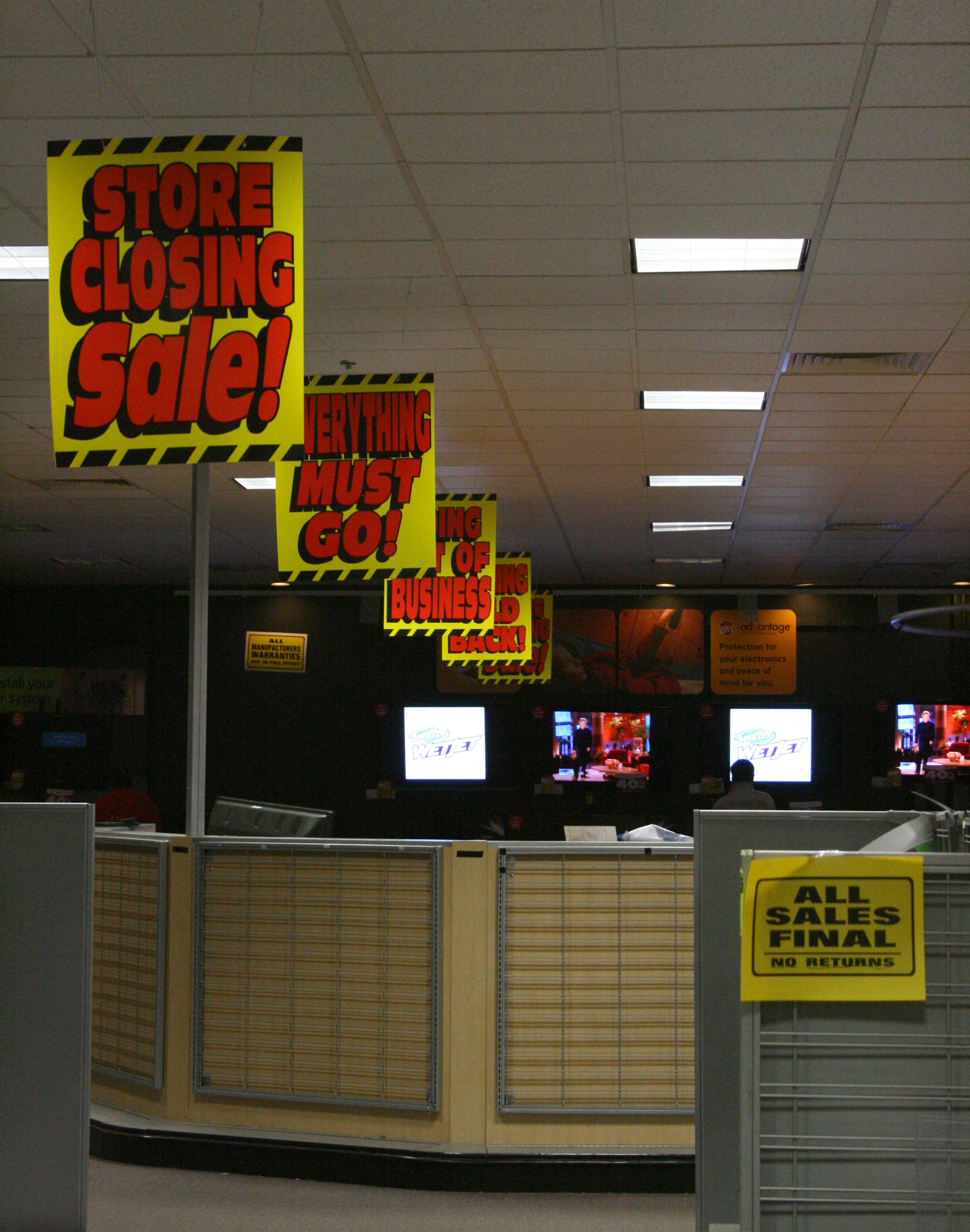 Liquidation signs at the Circuit City at 4601 Creedmoor Road in Raleigh, North Carolina, as the chain is going out of business.